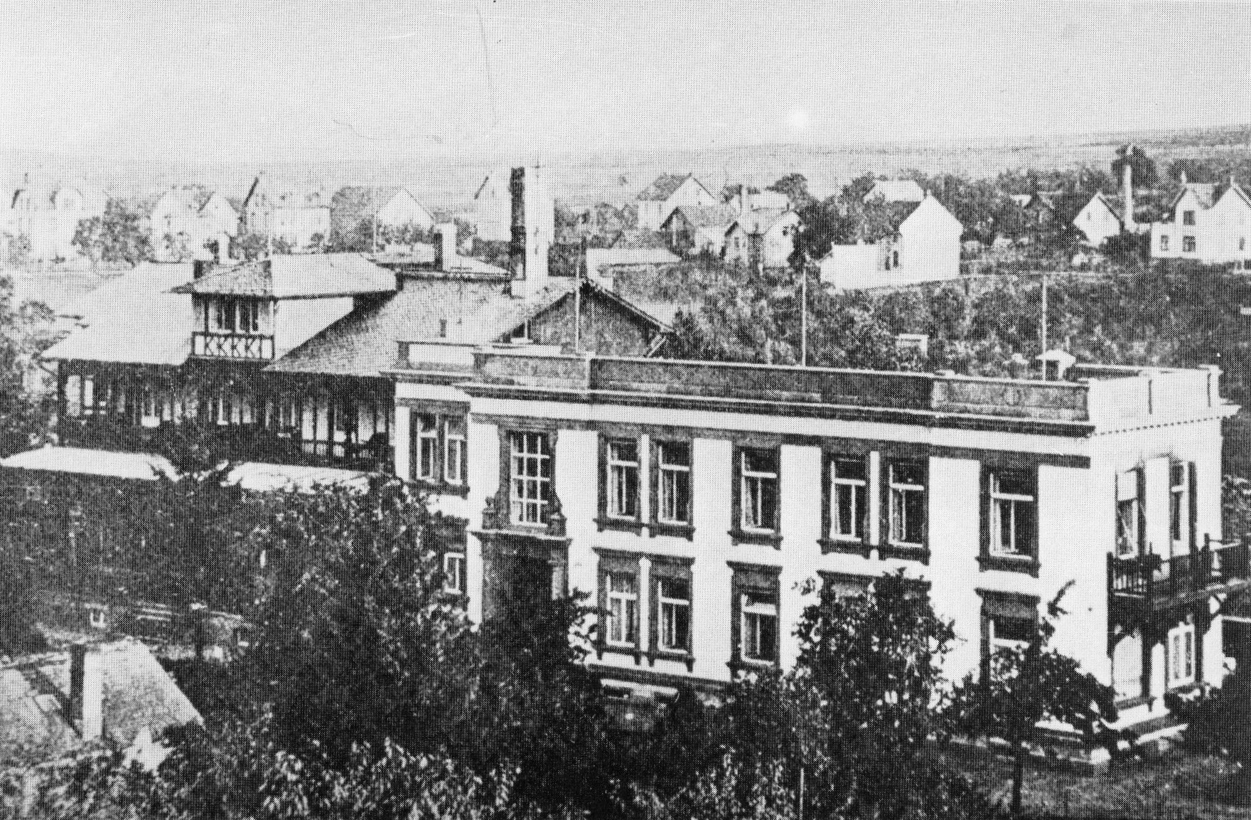 Jewish sanatorium in Bad Soden am Taunus